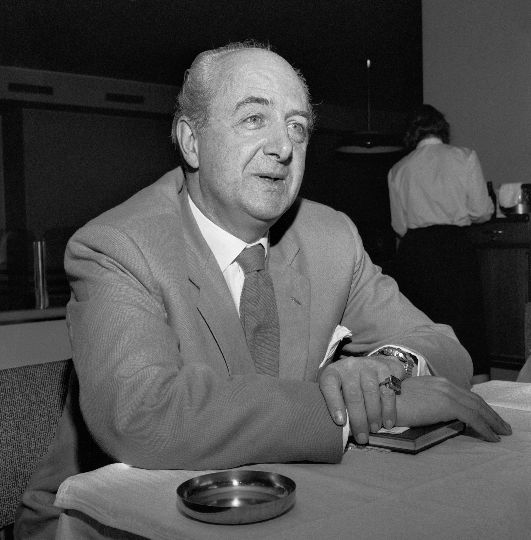 Photograph of the British actor Dennis Arundell (1898–1988) during his visit to Finland.